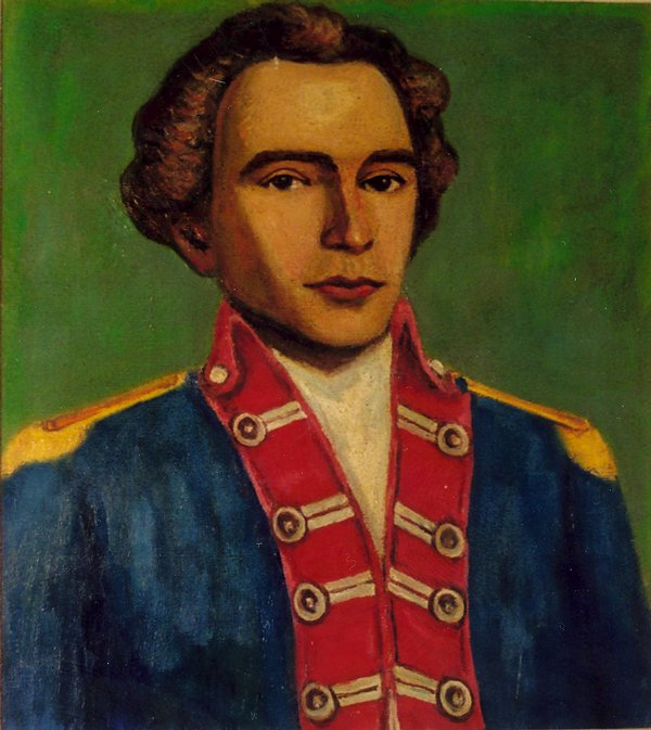 Portrait of Colonel William Crawford (1732 - 1782), who was an American soldier, and fought Indians in the French and Indian War and the American Revolutionary War.